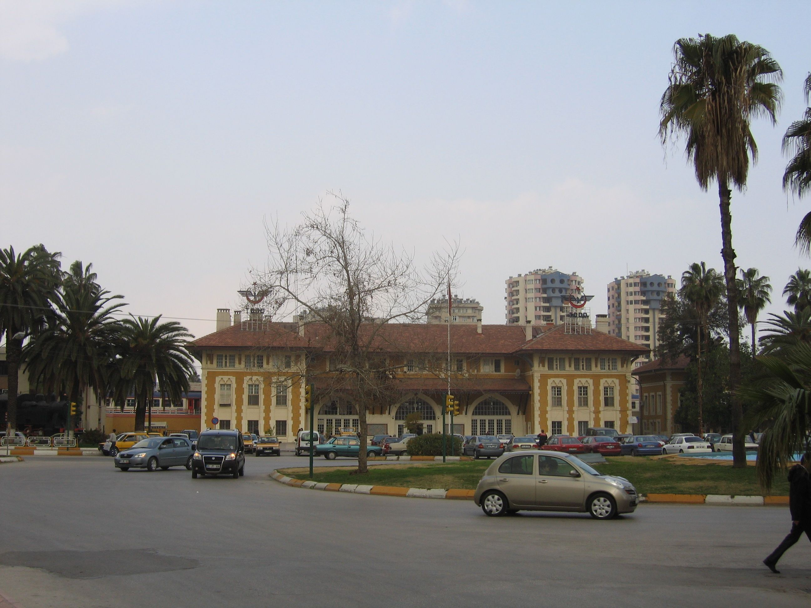 Railway Station Adana, Turkey - Bagdad Railway